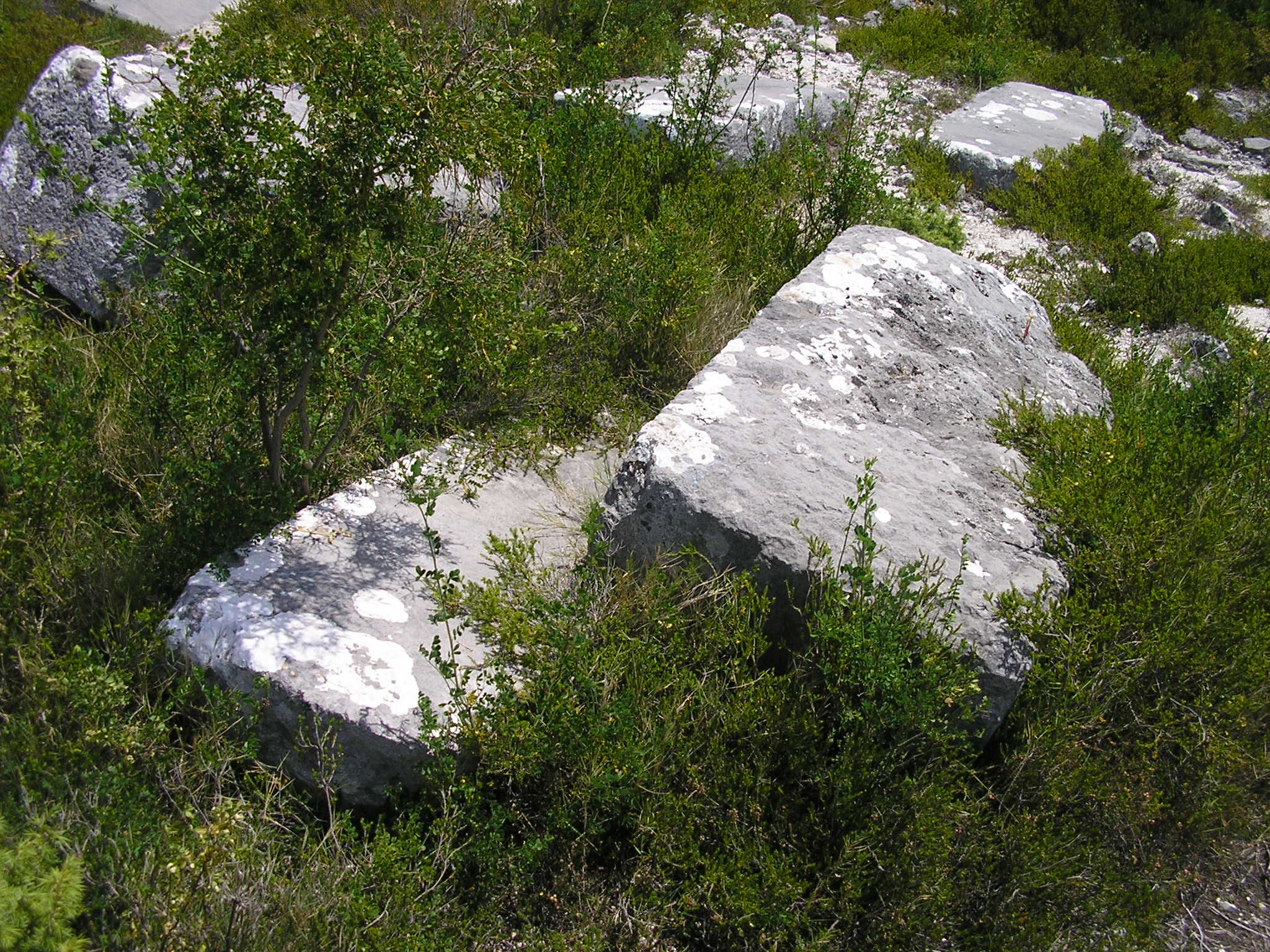 Greblje necropolis